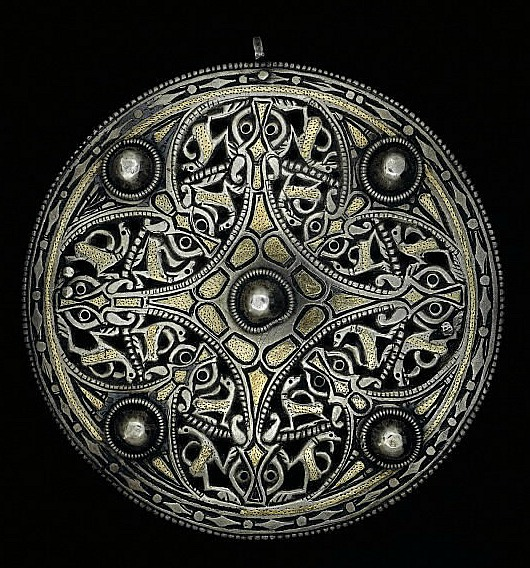 "Slightly convex bossed disc brooch of sheet silver with inlaid gold and niello ornament. The zoomorphic decoration is deeply carved and pierced to give an open-work effect. Within the beaded rim, a zone of alternate disc and lozenge patterns contains the main decorative field, which consists of a central hollow-sided cruciform design with a boss at its centre and animal-head terminals, with a quatrefoil, the cusps of which terminate in identical animal heads: all the heads are (or were) set with blue glass eyes and are interconnected by a beaded circle. This in turn creates subsidiary fields each containing a puppy-like Trewhiddle-style beast. Four more bosses lie towards the perimeter, behind the animal-heads on the quatrefoils. Numerous gold panels are hammered into the decoration and considerable use is made of speckling and beaded framing. A suspension or keeper loop is attached to one edge of the brooch, at right angles to the direction of the pin catch, only stubs of which remain. The back is otherwise plain." From the British Museum website.